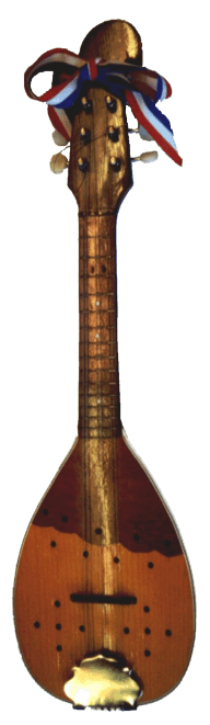 Bisernica, a Croatian instrument used in tamburica ensembles.